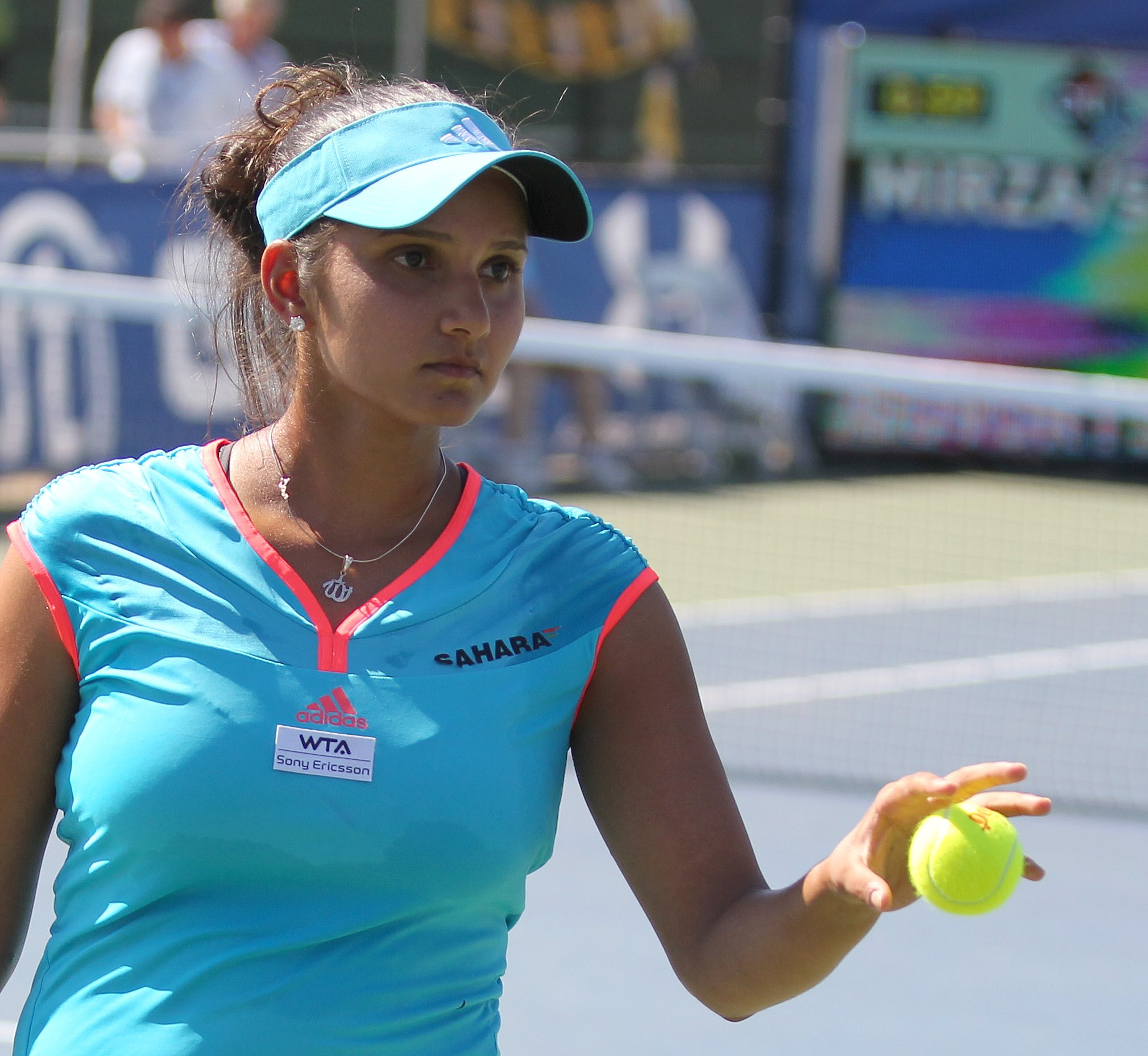 Sania Mirza in Citi Open Tennis on July 31, 2011